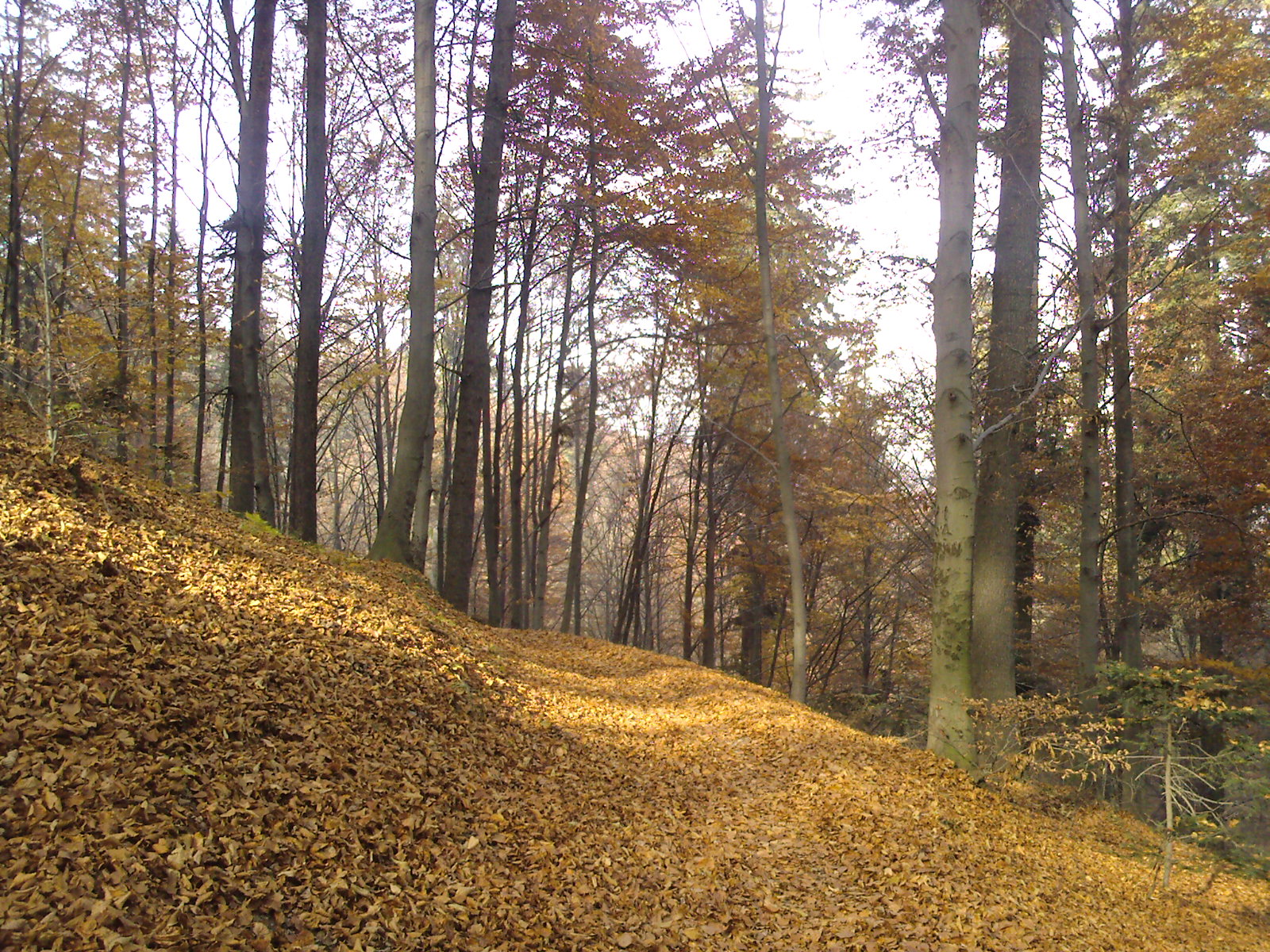 Mixed forest